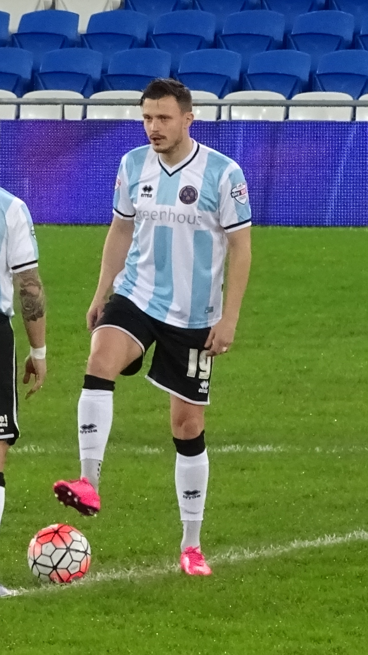 Footballer Andrew Mangan playing for Shrewsbury Town.